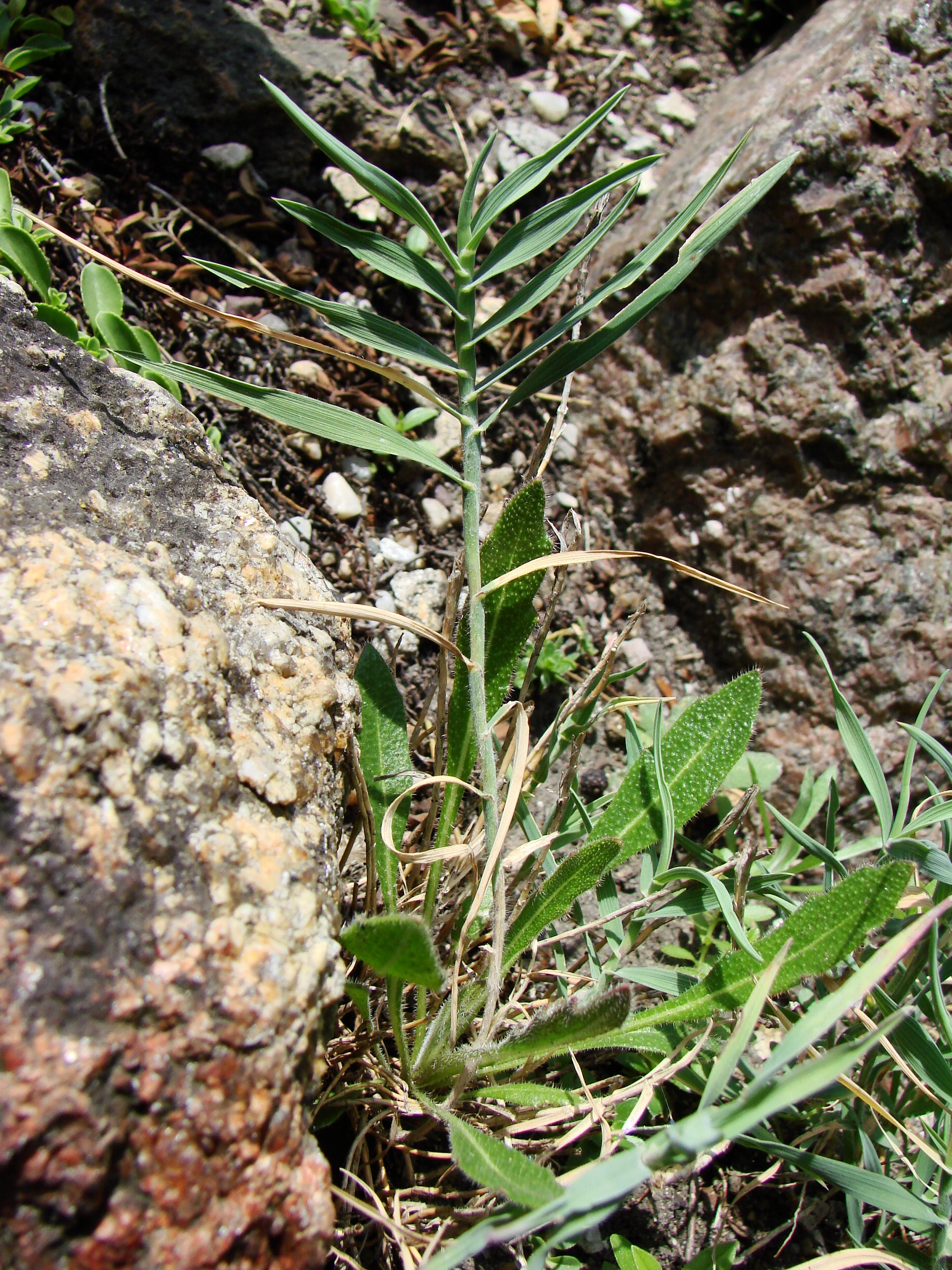 Picture taken in the university botanical garden of Wrocław (Poland): Trisetum distichophyllum (Vill.) P.Beauv. ex Roem. & Schult.